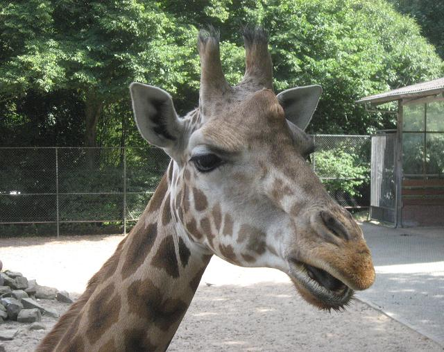 Close up of a Giraffe head in Ouwehands Dierenpark